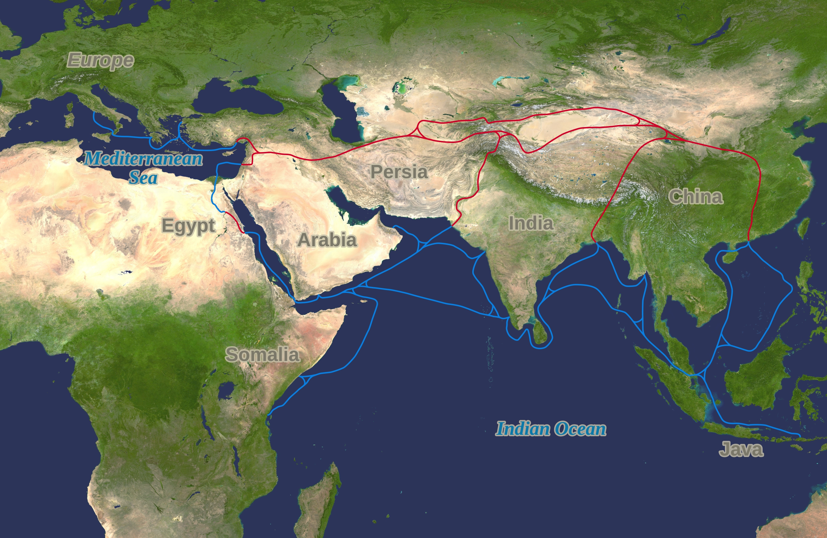 Extent of Silk Route/Silk Road. Red is land route and the blue is the sea/water route. Satellite composition of the whole Earth's surface.